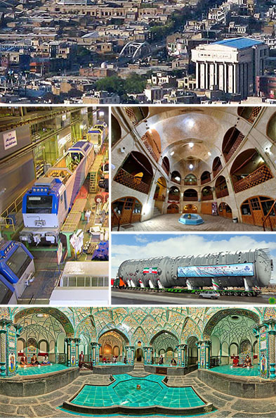 A montage of pictures about Arak city.